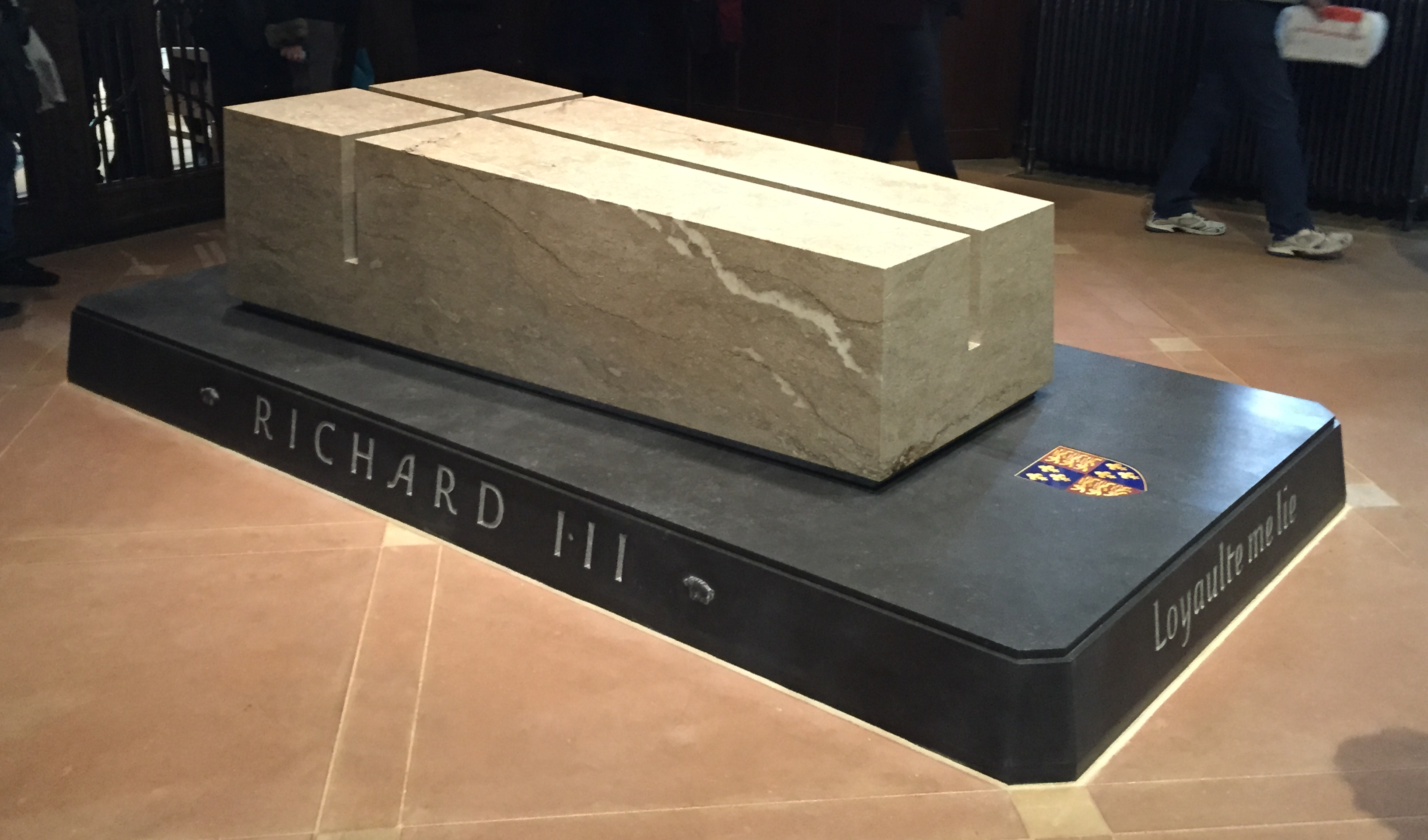 Richard III's new tomb in Leicester Cathedral. I personally took this picture when Richard III's new tomb was revealed to the public in Leicester Cathedral on 27 March 2015, pictures were allowed with no restrictions of use